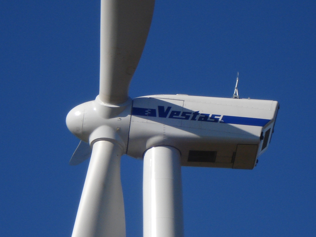 Vestas V90-3MW wind turbine nacelle.